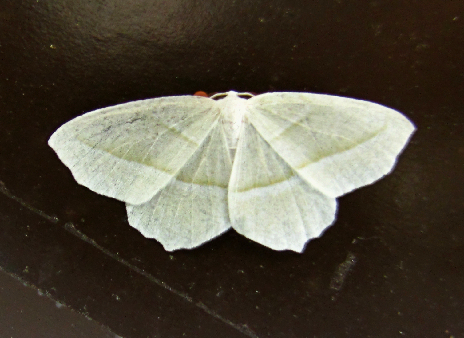 Pale Beauty (Campaea perlata), Bon Echo Provincial Park, Ontario, Canada